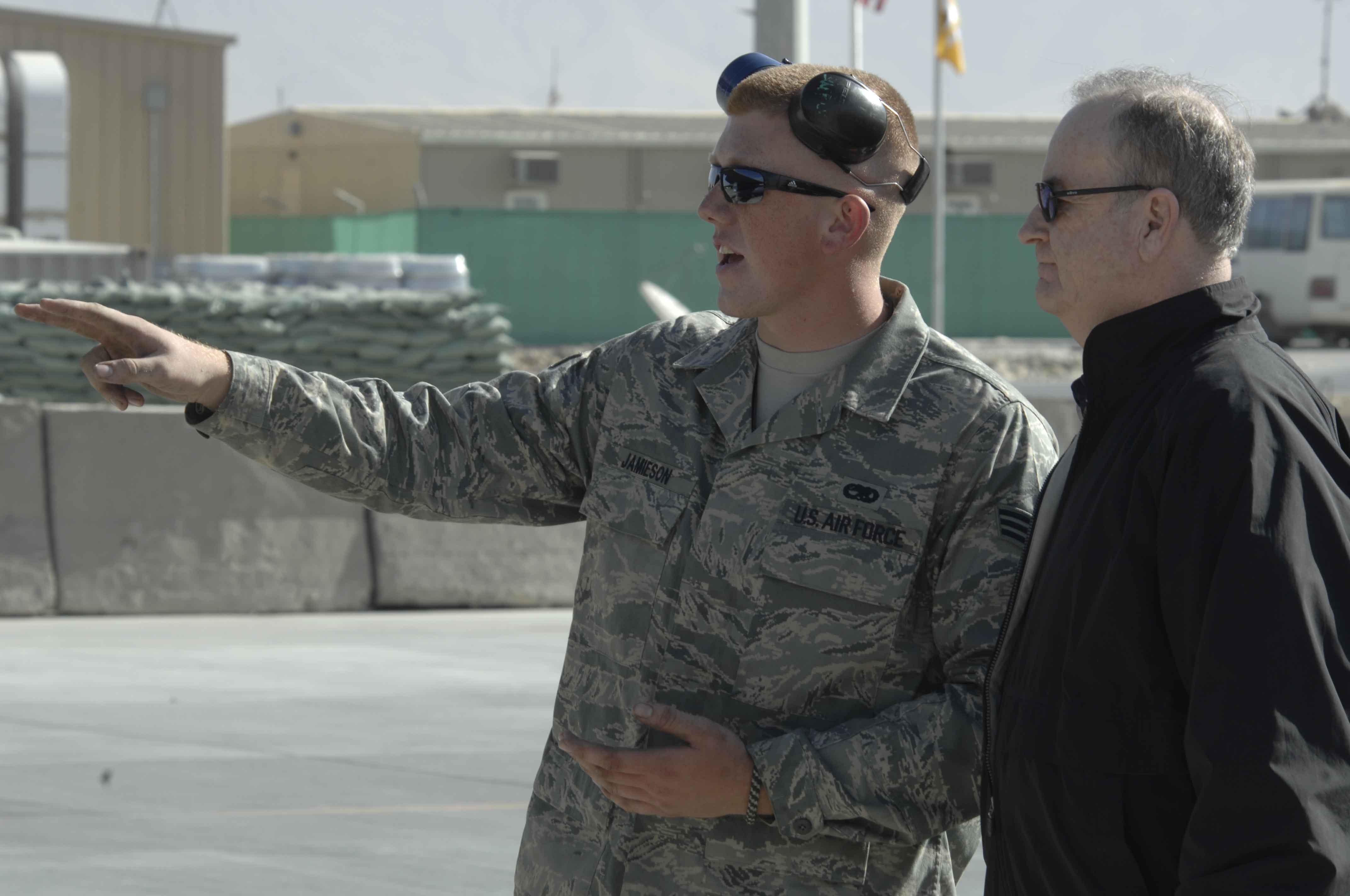 BAGRAM AIR BASE, Afghanistan -- Airman 1st Class Jeffrey Jamieson, 455th Expeditionary Maintenance Squadron, chats with radio and TV personality Bill O'Reilly during his visit here Nov. 17, 2007. (U.S. Air Force Photo by Staff Sgt. Joshua Jasper)